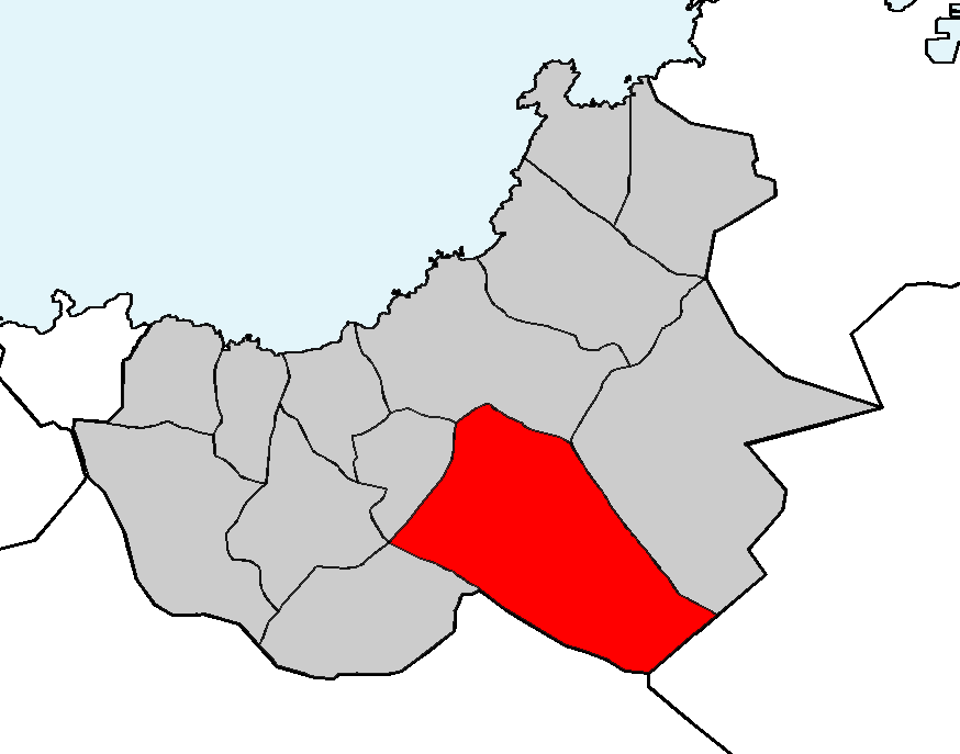 Location of the parish of Loureda in the municipality of Arteixo (Galicia, Spain)